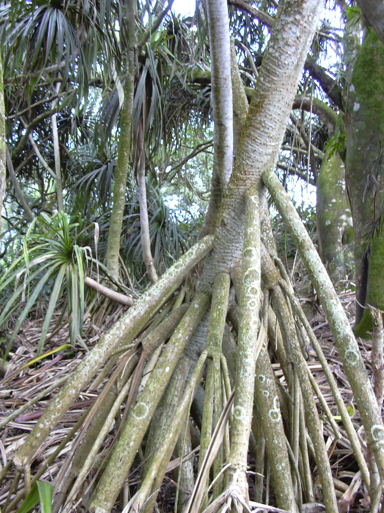 Pandanus tectorius (prop roots). Location: Maui, Hana Hwy